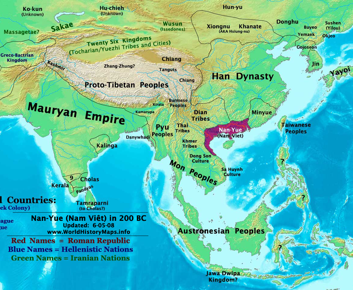 Map of ancient Nam Việt (204 BCE - 111 BCE) - an ancient kingdom that consisted of parts of the modern southern Chinese provinces of Guangdong, Guangxi, Yunnan and northern Vietnam. Credits Author: Thomas A. Lessman. Source URL: Image was created by me (Thomas Lessman) based on map of Eastern Hemisphere in 200 BC. Image is free for public and/or educational use. I would appreciate a mention if this image is used elsewhere. If anyone is interested in helping further this work, please contact Thomas Lessman at .